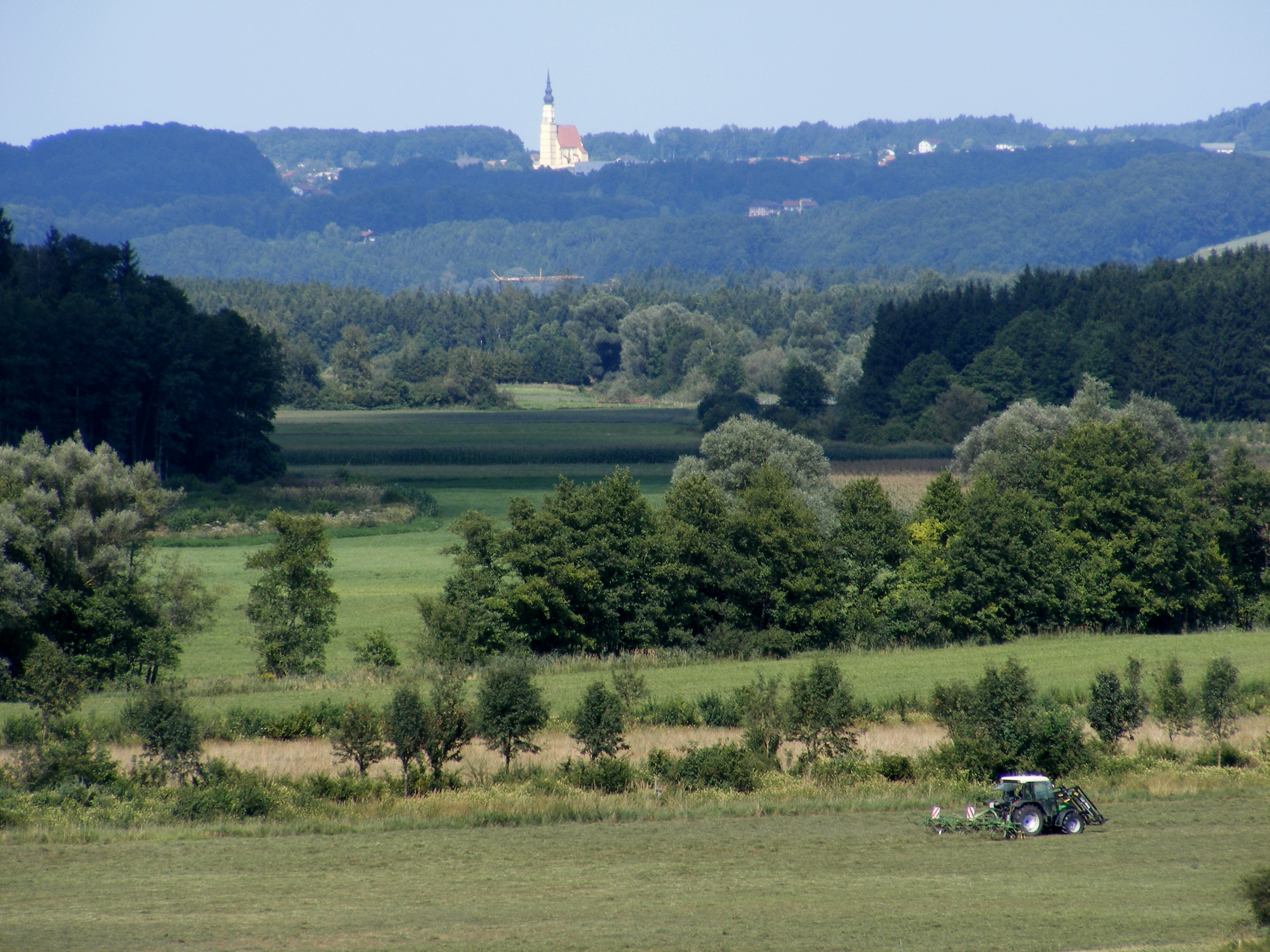 Hay harvesting in Helmberg, far north of the state of Salzburg, Austria (municipality of St. Georgen bei Salzburg; view to Eggelsberg, state of Upper Austria.